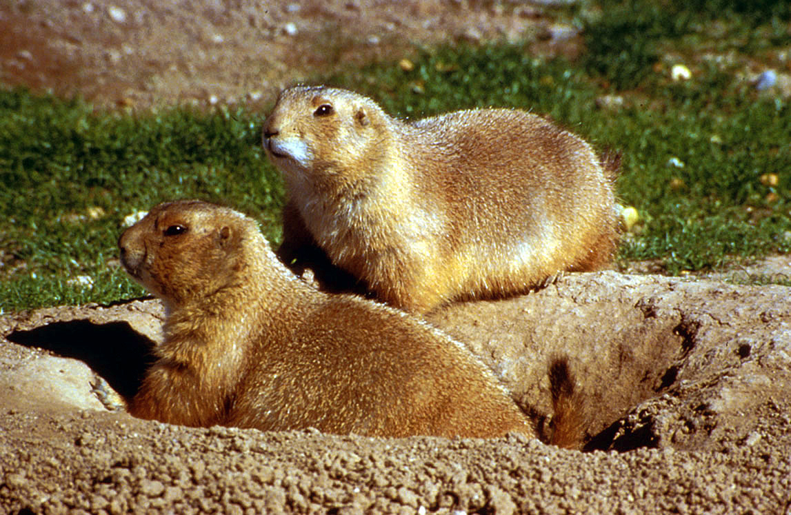 Black-tailed Prairie-Dog (Cynomys ludovicianus)